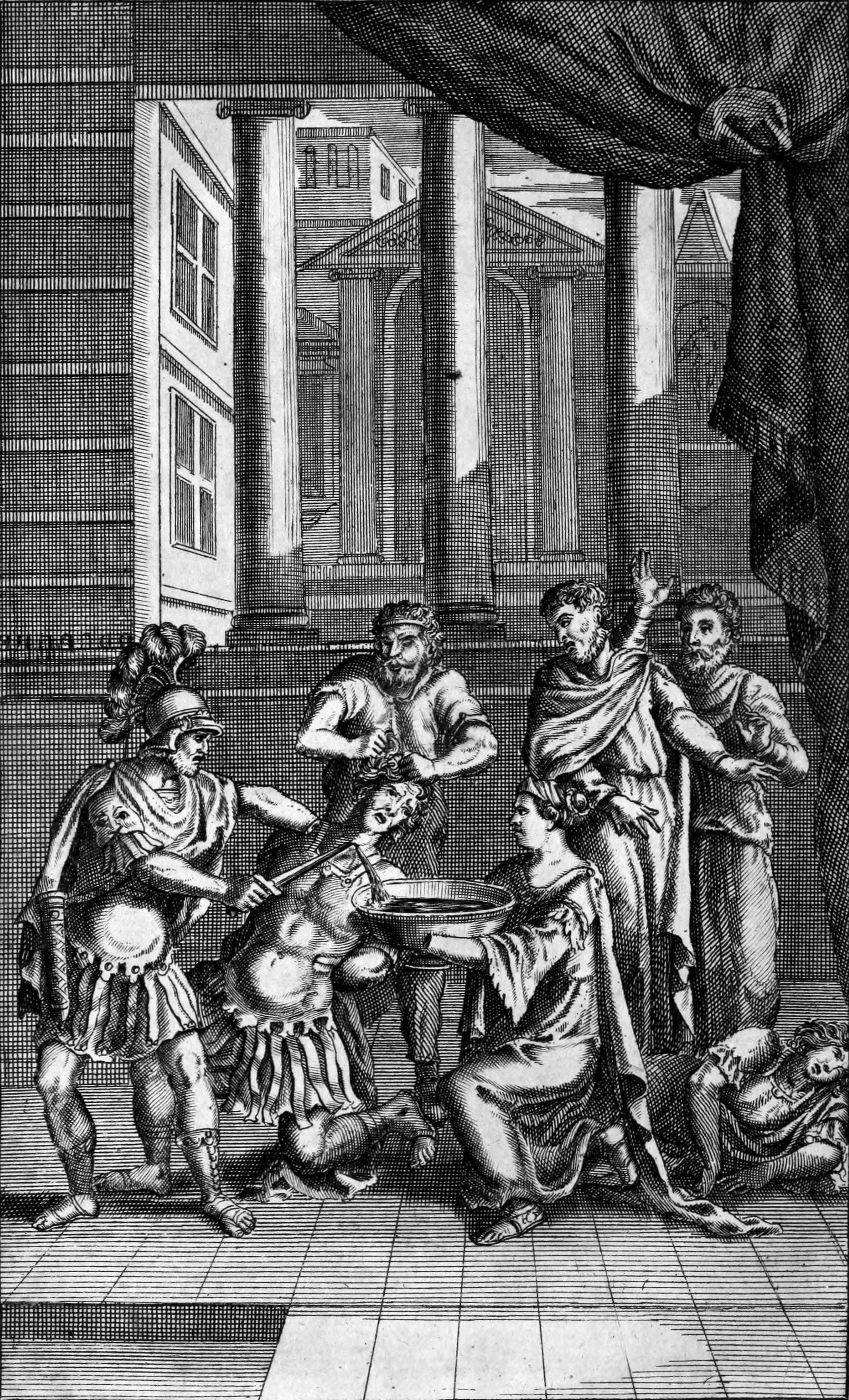 Illustration from Titus Andronicus from Nicholas Rowe's 1709 edition of Shakespeare's Complete Works